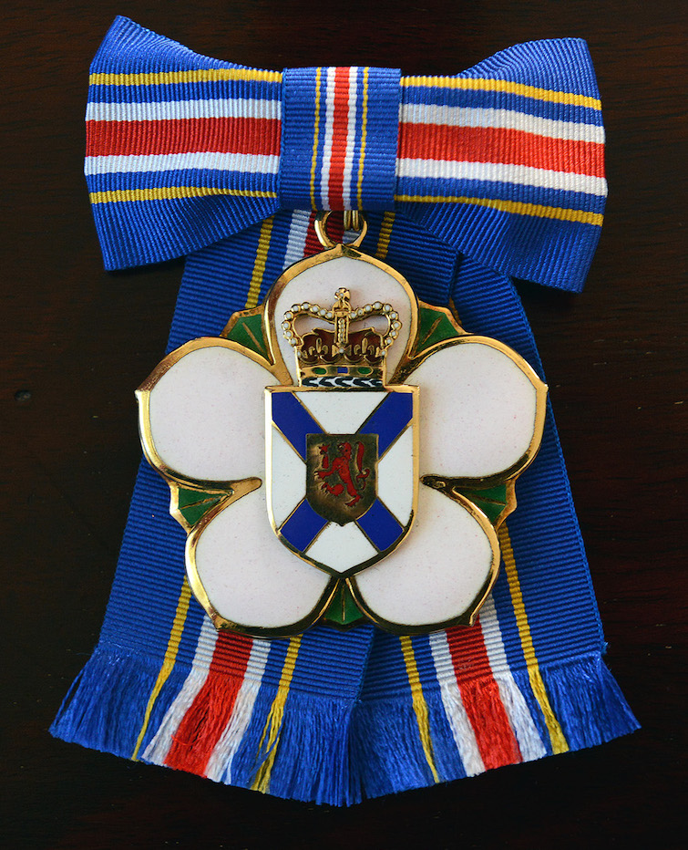 Insignia of the Order of Nova Scotia, mounted on a bow. Multipiece sterling silver, gold plated and enamel order insignia